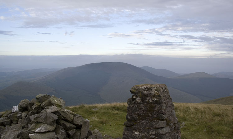 View of Tarrenhendre from Tarren y Gesail with summit cairn in foreground